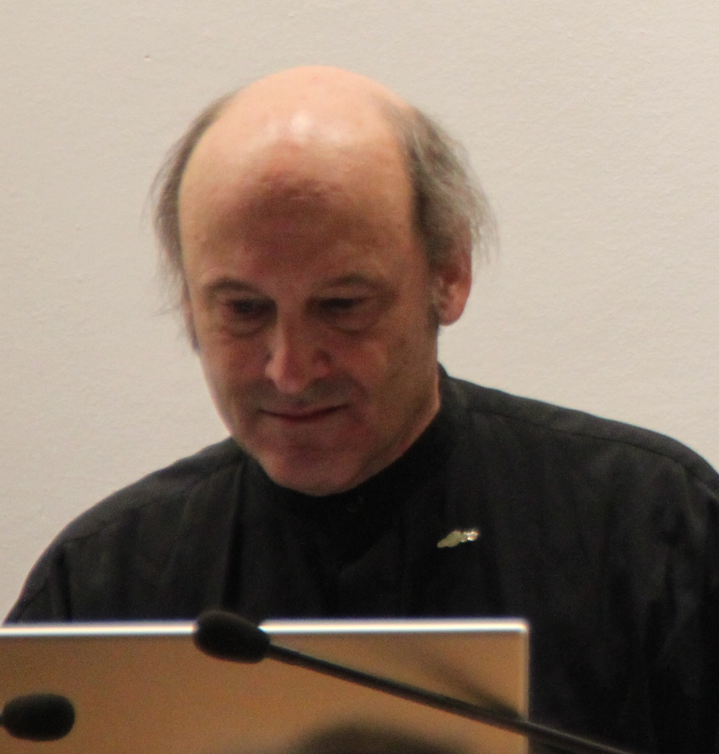 Chris Crawford giving a speech at the Cologne Game Lab about "The Phylogeny of Play".